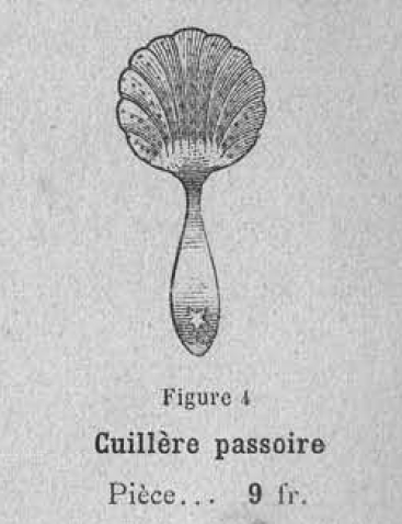 Julep Strainer, used to strain cocktails from the shaker and hold back the ice. Drawing from Louis Fouquet: Bariana. Criterion Bar, Paris 1902, p. 15. According to Anistacia Miller / Jared Brown: Tools of the Trade: Cocktail Strainers (2012), this model is also named Star Strainer and was manufactured, amongst others, around 1890 by 1847 Rogers Bros.